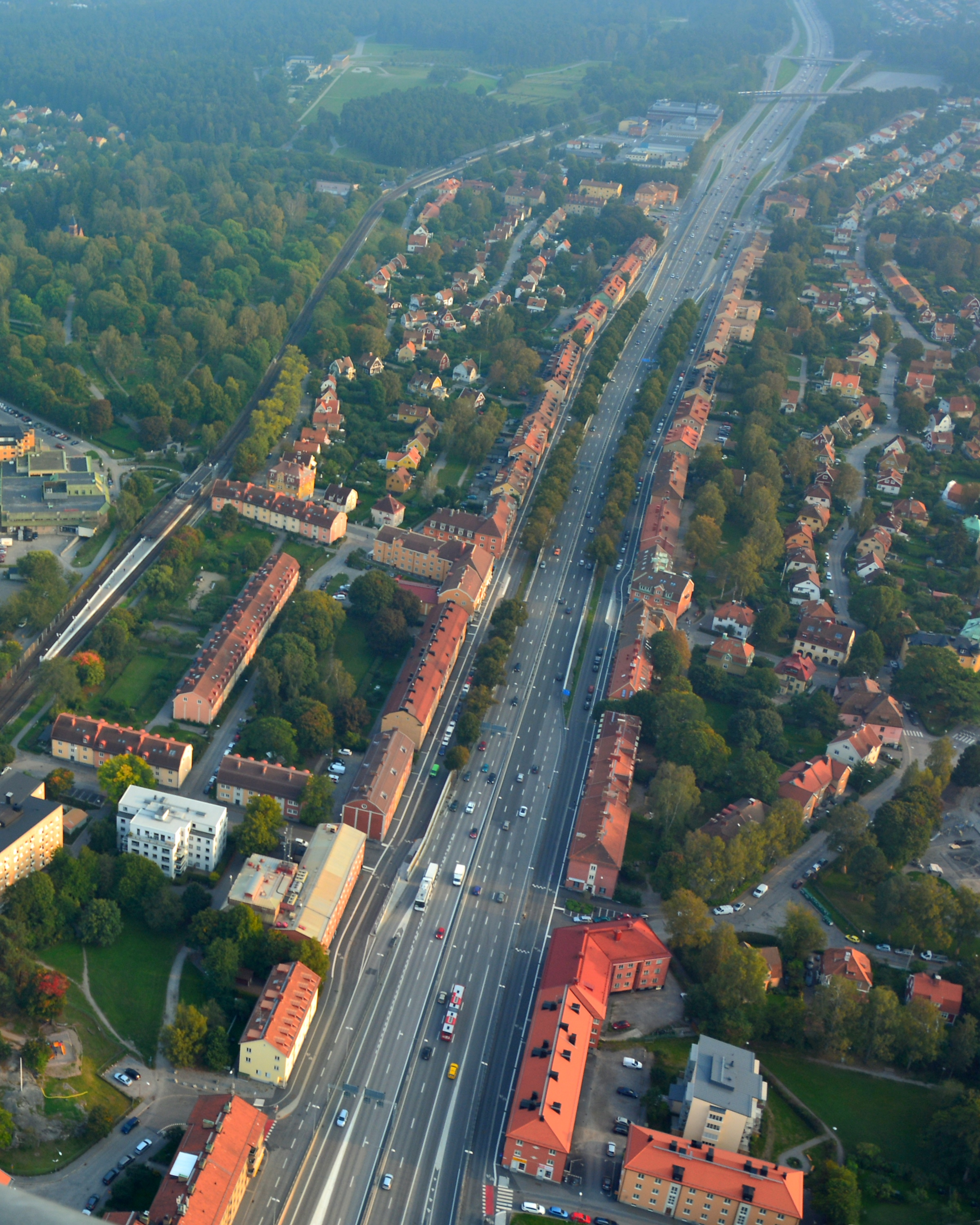 Nynäs road south through Old Enskede.